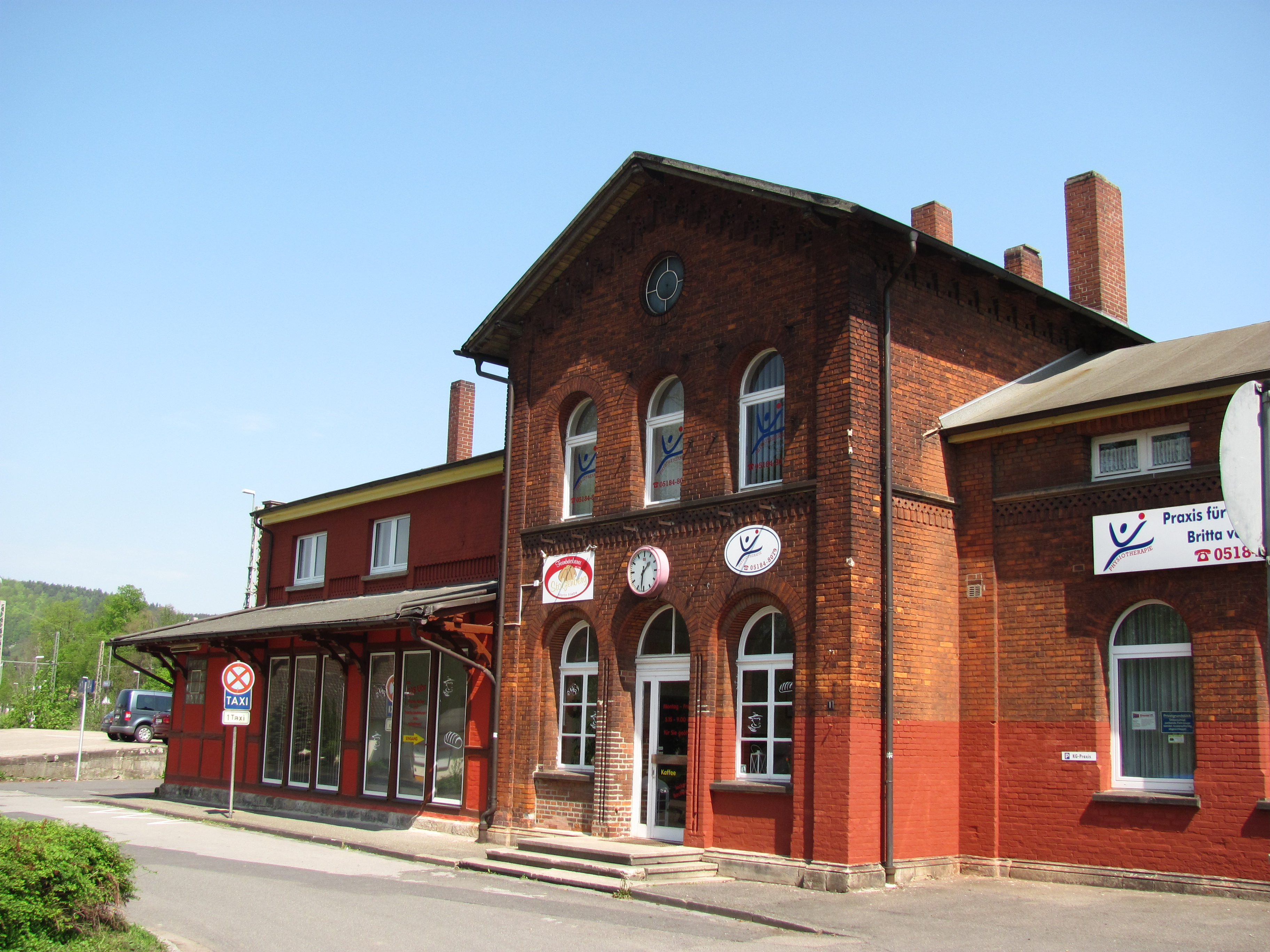 Railway Station, Freden (Leine), Lower Saxony, Germany